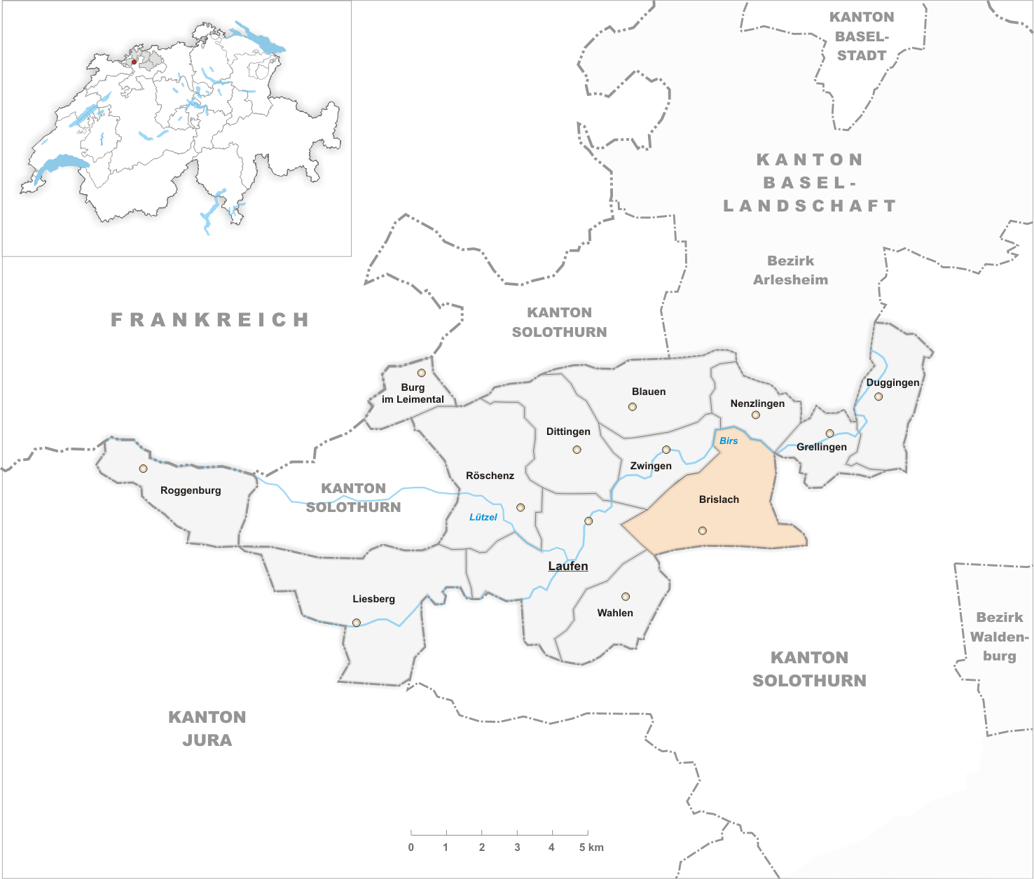 Municipality Brislach